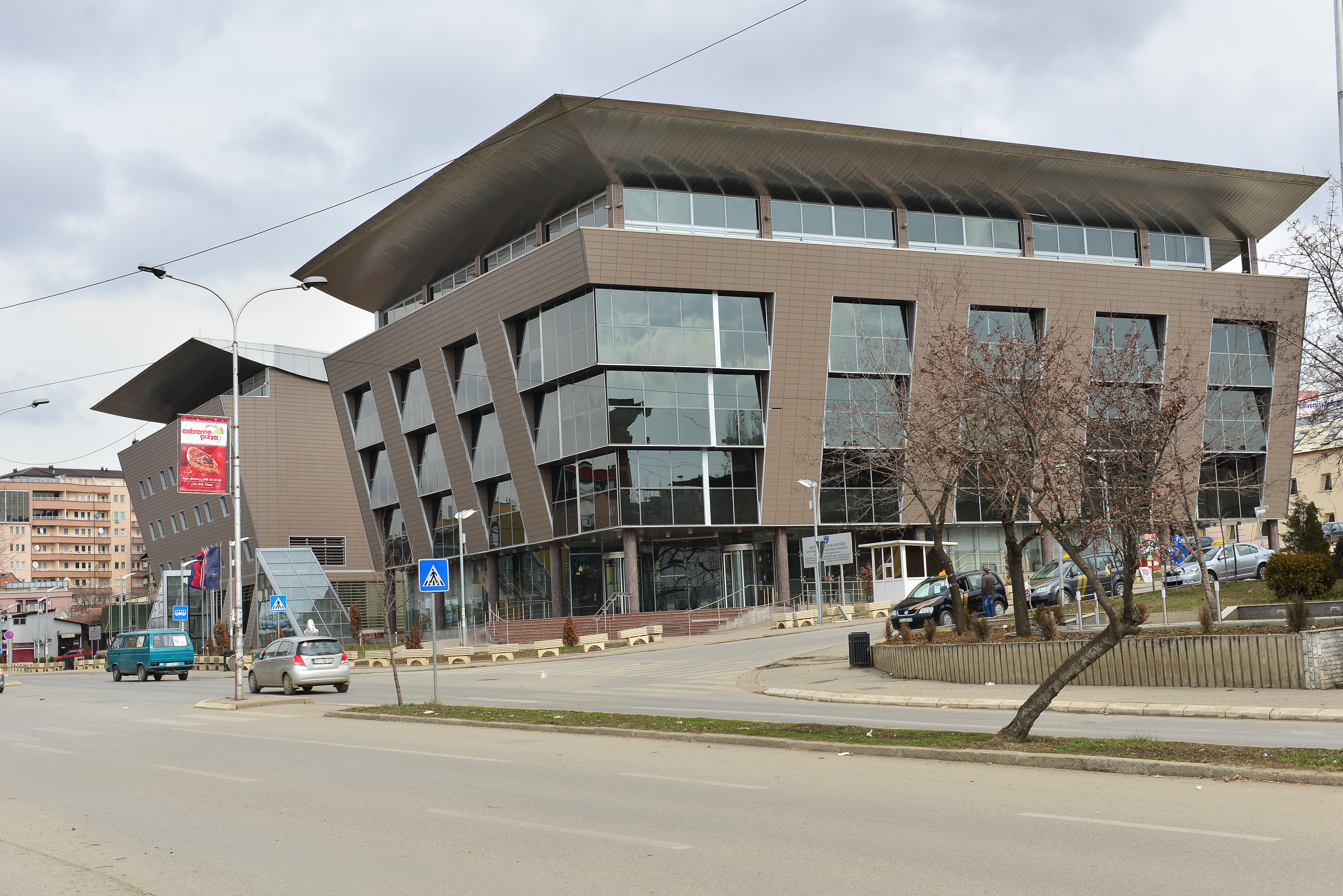 The Ministry of Education, Science and Technology of Kosovo on Agim Ramadani Street in PristinaShqip: Ministria e Arsimit, Shkencës dhe Teknologjisë e Republikës së Kosovës, Rruga. Agim Ramadani, Prishtinë, Republika e Kosovës